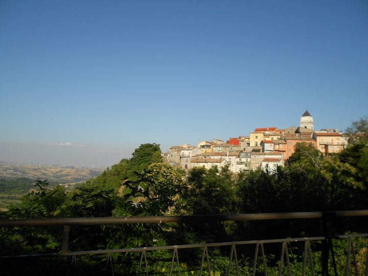 Cityscape of Guardia Lombardi (Avellino)